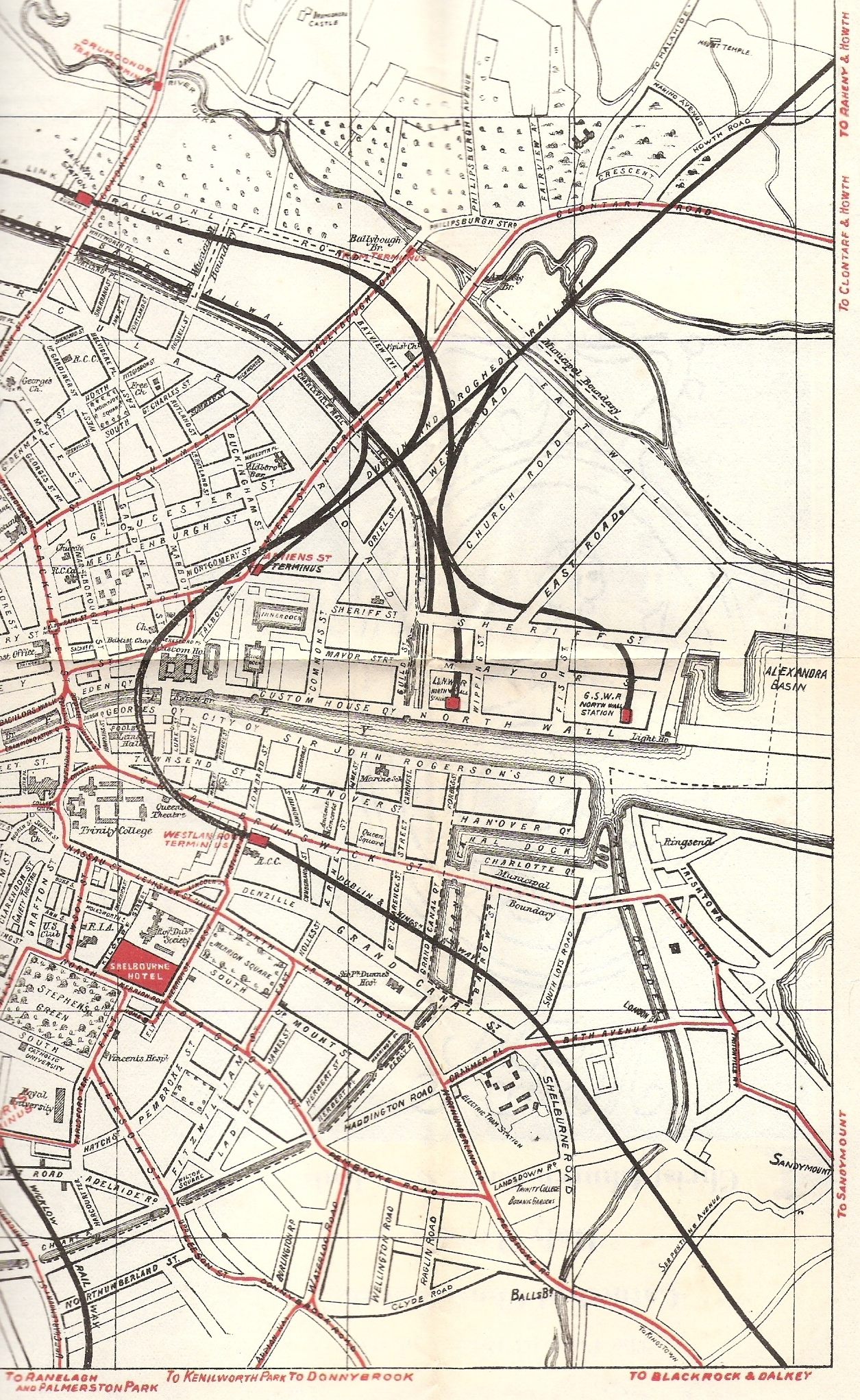 Sketch-style map of Dublin (Ireland), east and centre, N and S of R Liffey, with land use (note green areas), key buildings, rivers, roads, railways, and also tram lines, inc stops and termini, inc system central point, Nelson's Pillar, and power plant